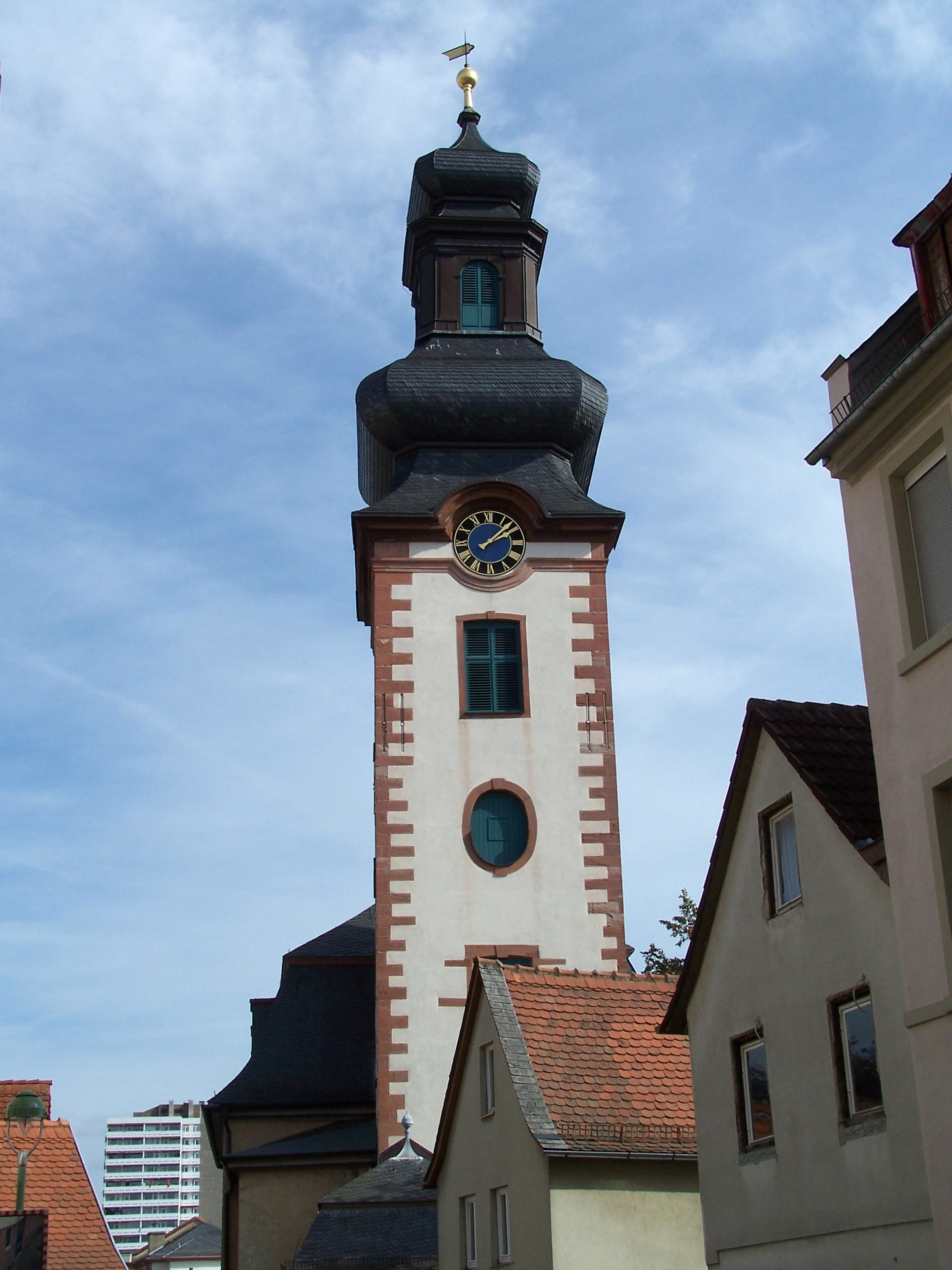 Tower of the Church of Johannes in Frankfurt am Main-Bornheim, seen from west